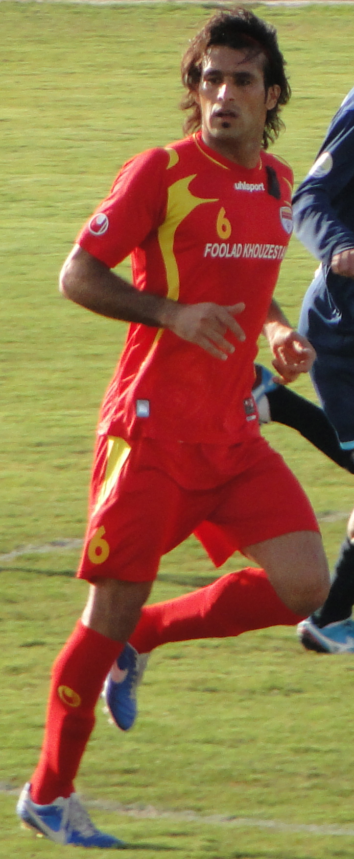 Abdullah Karami In Play Against Peykan